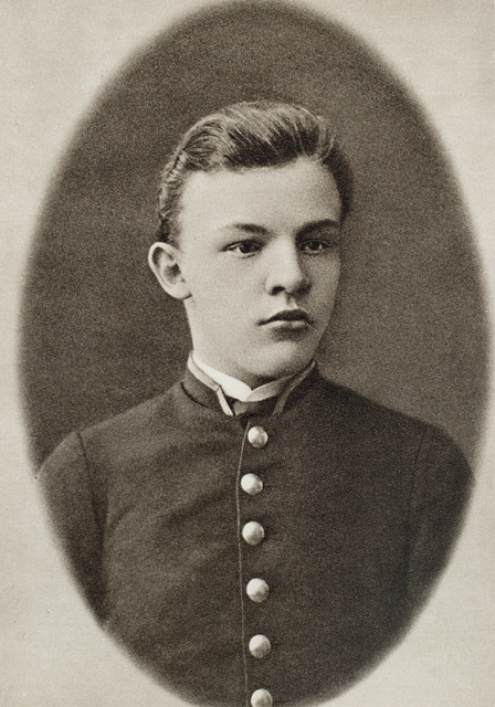 Lenin circa 1887.